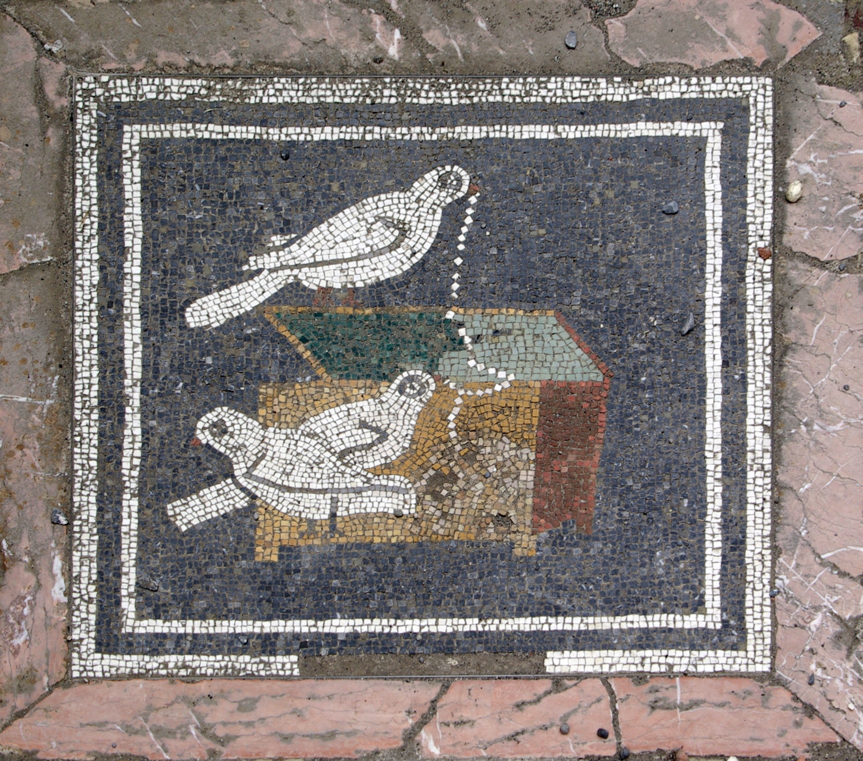 Pompeii, Casa del Fauno